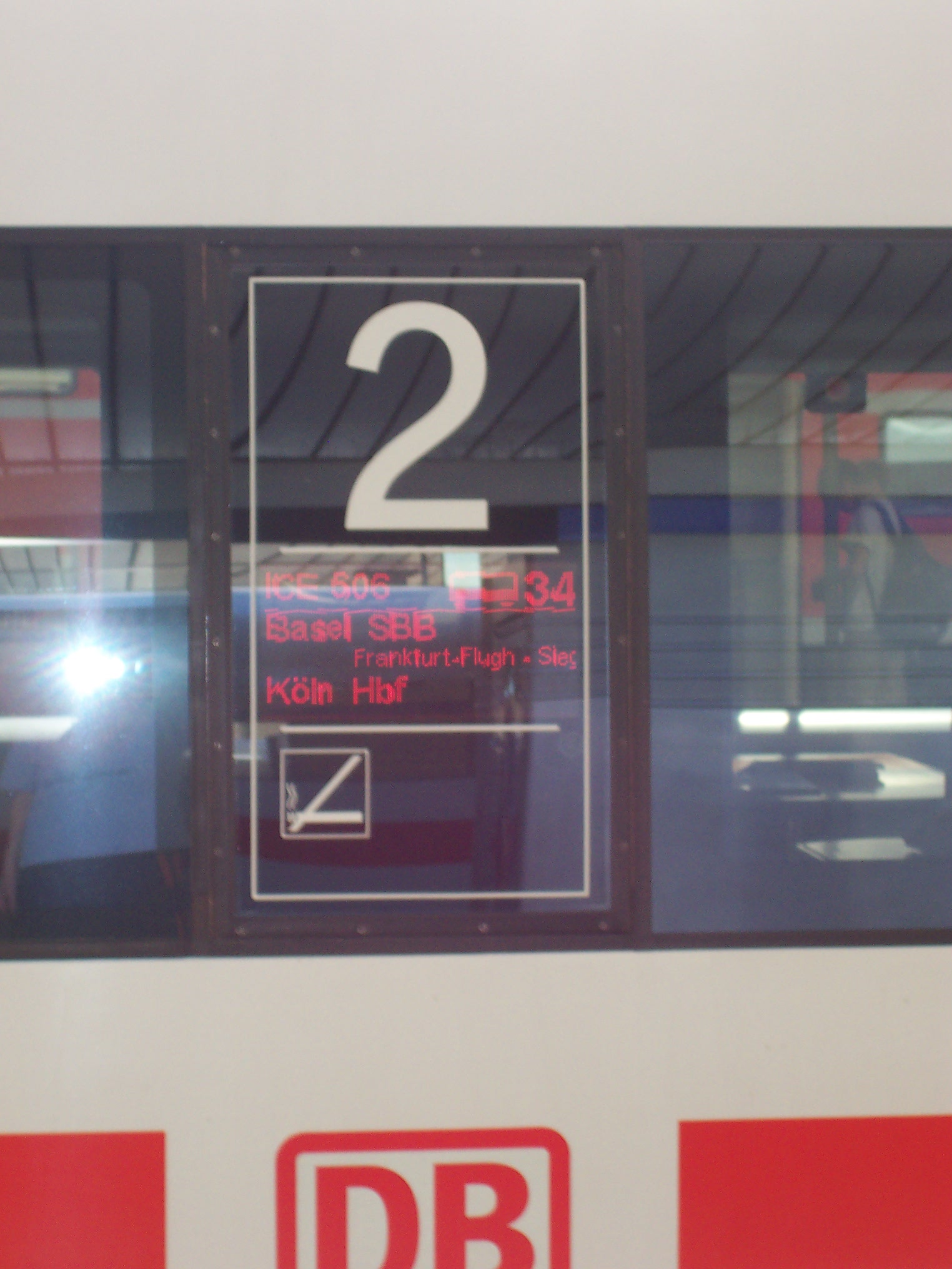 Train/Track Photos from my trip on a EuroCity Germany-Mannheim to France-Paris Est